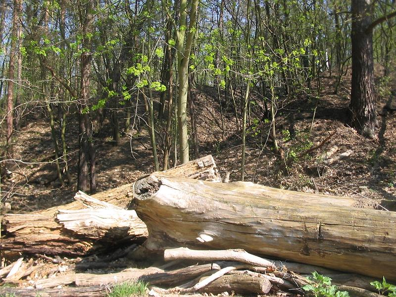 The Murellenberge, the Murellenschlucht and the Schanzenwald (german for: Murellenhill, Murellenravine, Sconceforest) are a hill-landscape from the last gacial period in Berlin-Ruhleben in the district Charlottenburg-Wilmersdorf. It is part of the Teltow-Plateau at its northside in Berlin. In the hills there is the memorial Denkzeichen zur Erinnerung an die Ermordeten der NS-Militärjustiz am Murellenberg (german for: Thought-Signs to commemorate the victims of Nazi military justice at Murellenberg), created by the argentine, in Berlin living, artist Patricia Pisani in 2002.